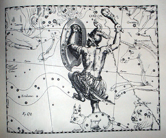 Johannes Hevelius, Prodromus Astronomia, volume III: Firmamentum Sobiescianum, sive Uranographia, table QQ: Orion, 1690.